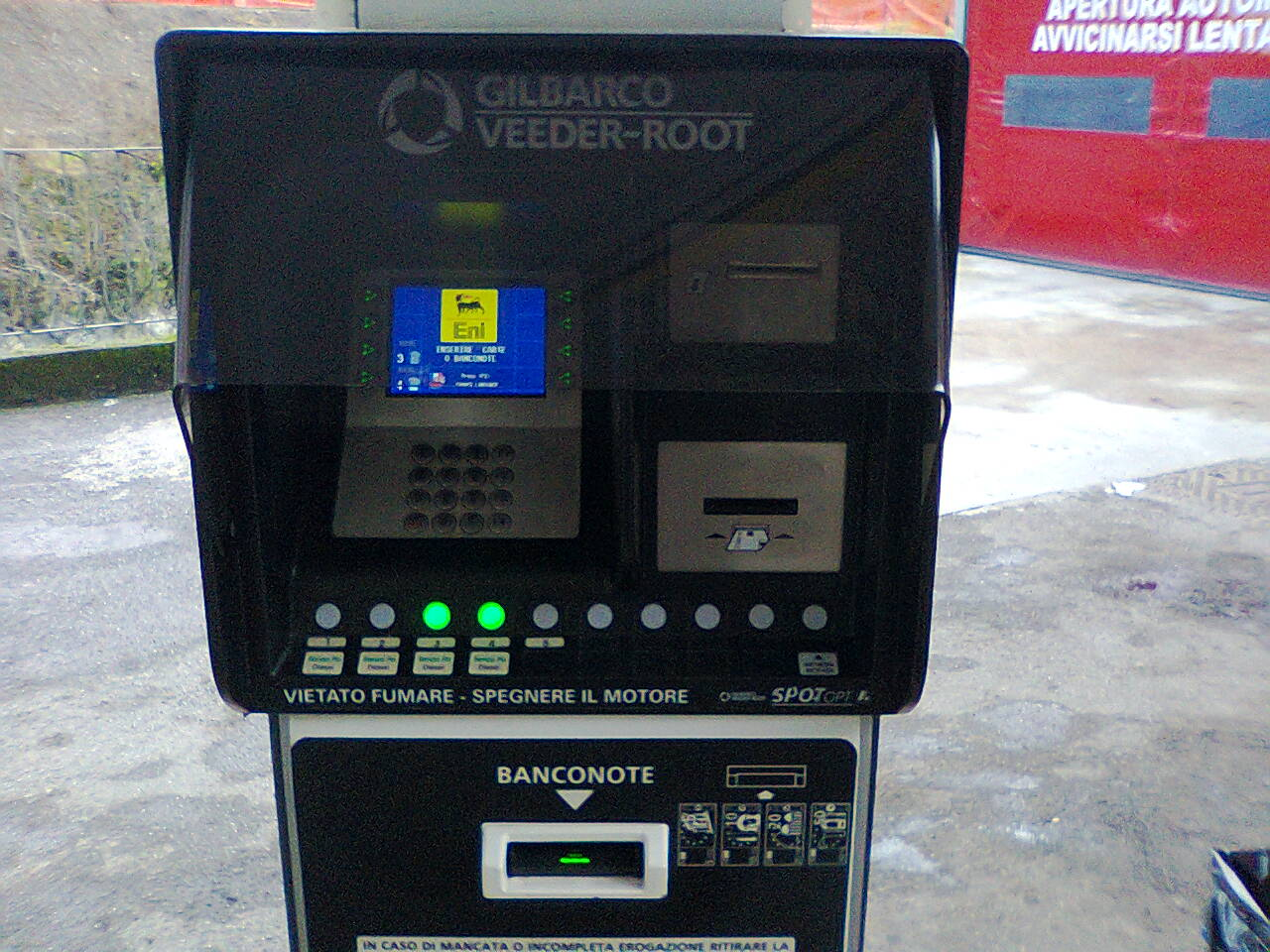 POS self service fuel station (Italy)